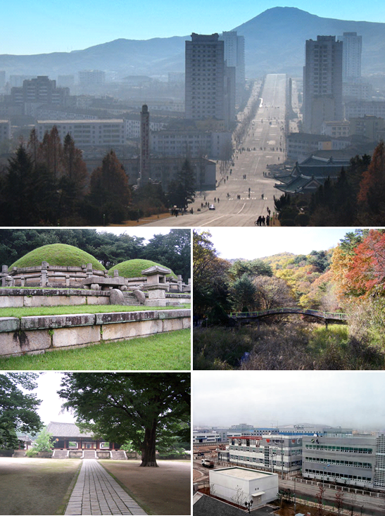 Montage of Kaesong City,DPRK.